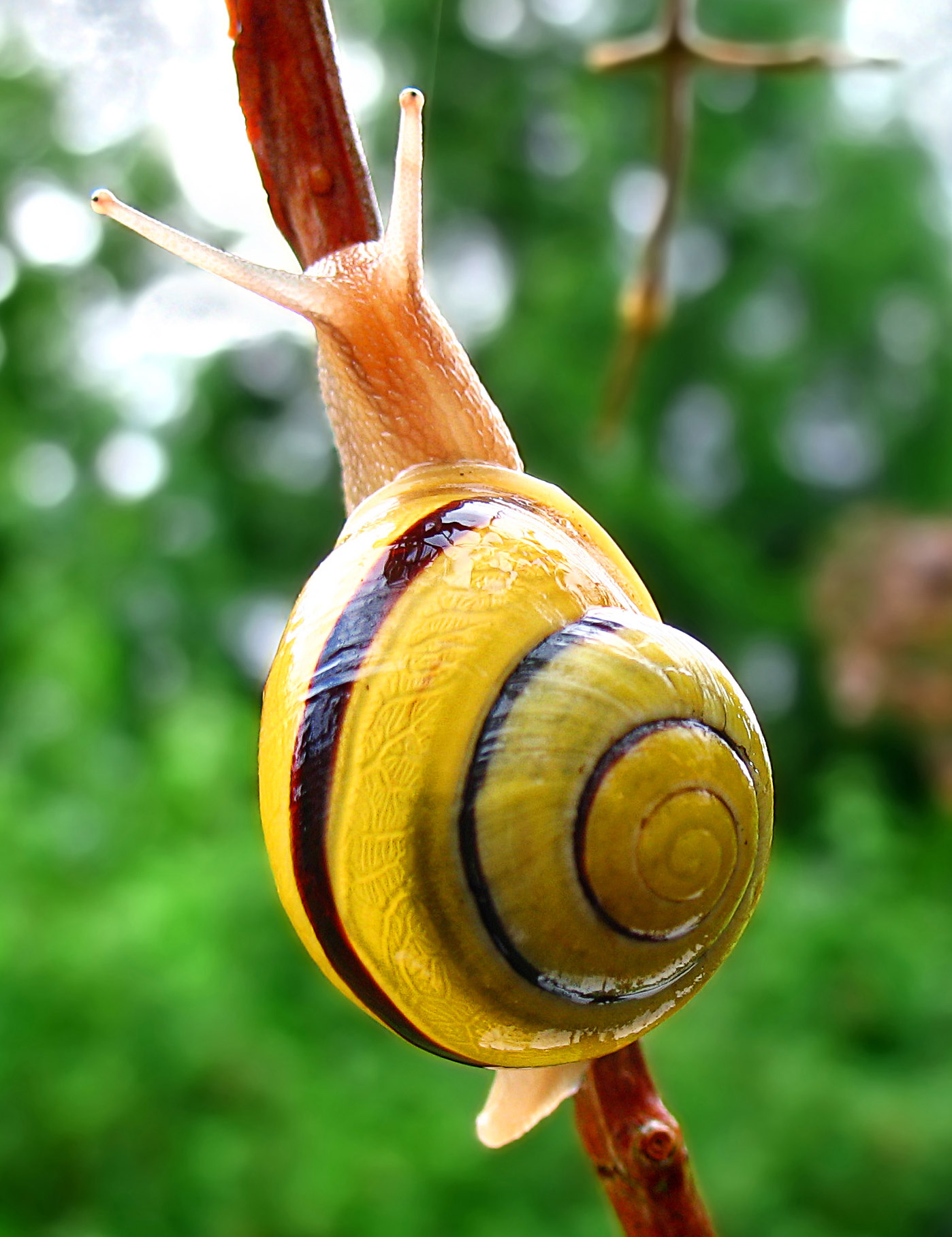 The brown-lipped snail or grove snail (Cepaea nemoralis).